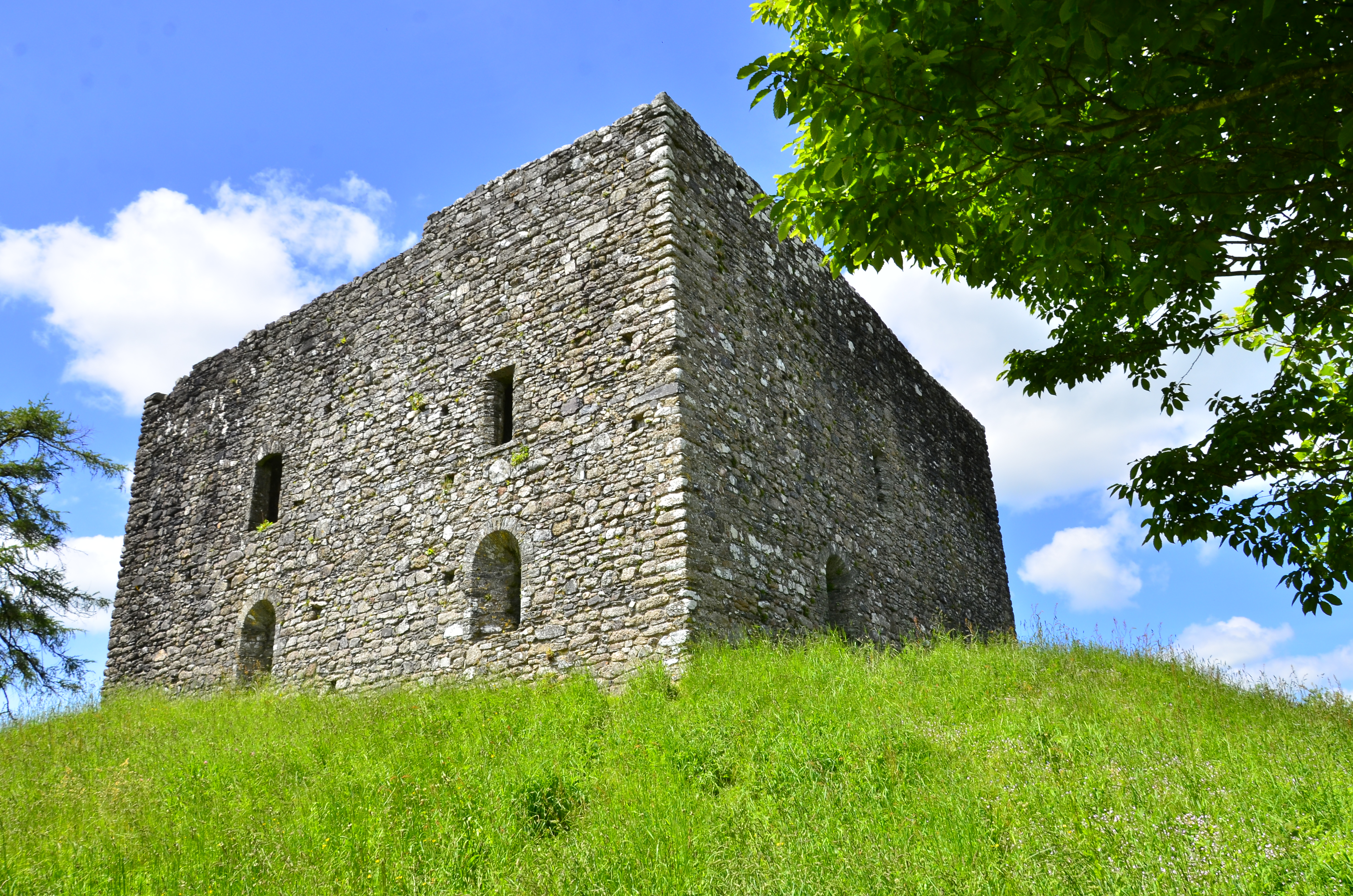 Ringwork, castle, town banks, site of Saxon town and defences Wikidata has entry Q17648695 with data related to this item.